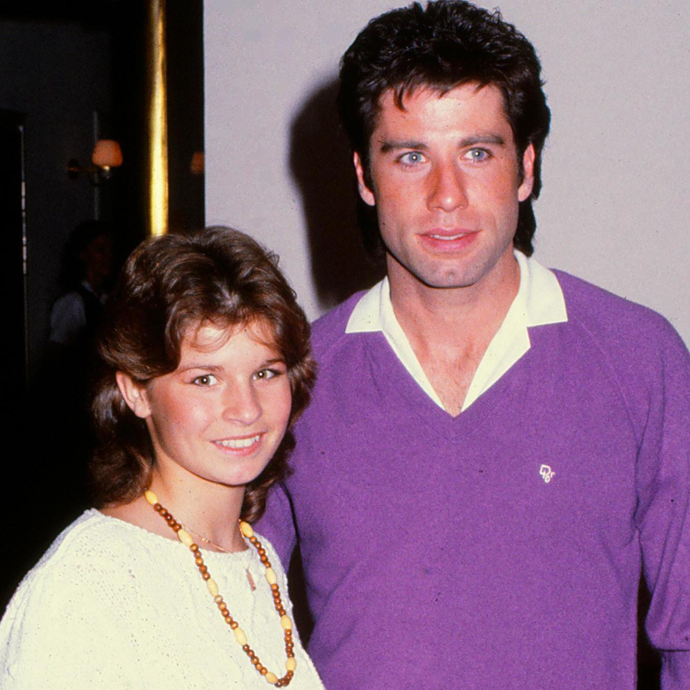 Carola Häggkvist invites herself to a break at the press conference to meet John T.